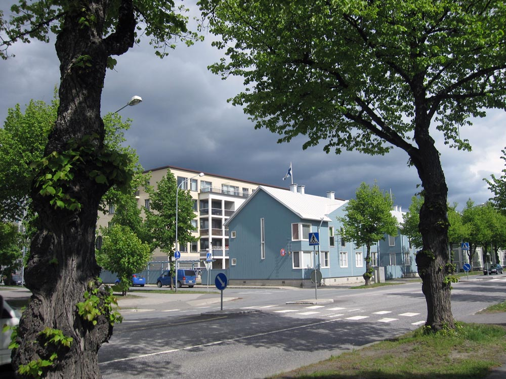 Joensuun Elli student houses on Siltakatu street in Joensuu, Finland